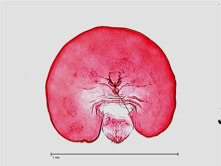 Aonidiella aurantii, Slide mounted specimen: Ventral prevulvar scleroses and apophyses present on pygidium, apophyses at times appearing as scleroses, median pygidial lobes largest, second and third lobes progressively smaller